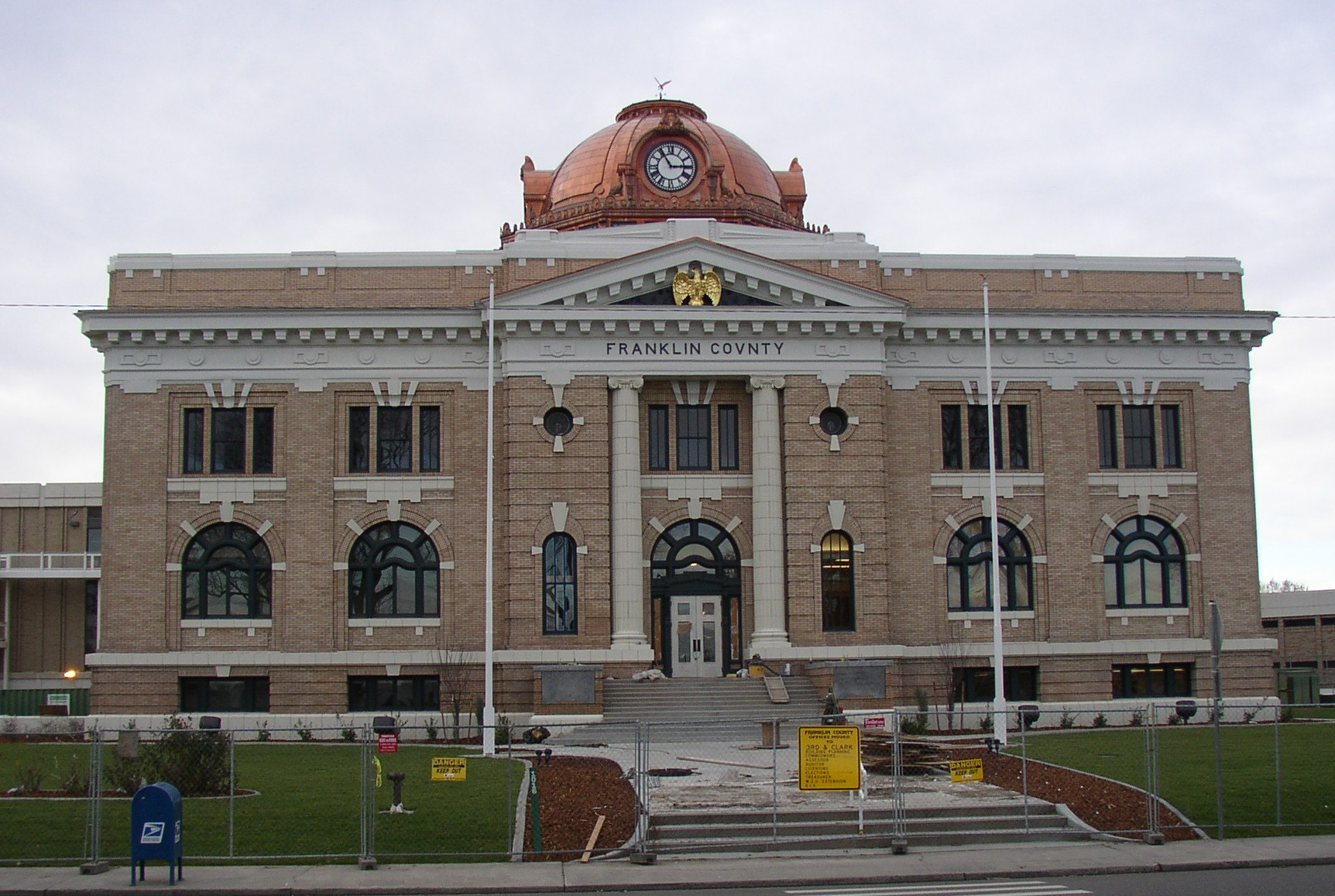 Franklin County Courthouse, Pasco, Washington